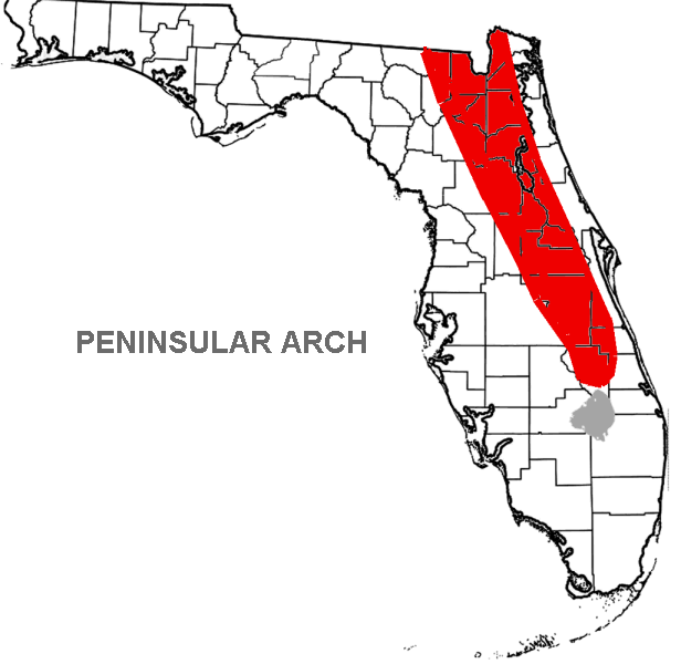 Depiction of Florida's Peninsular Arch